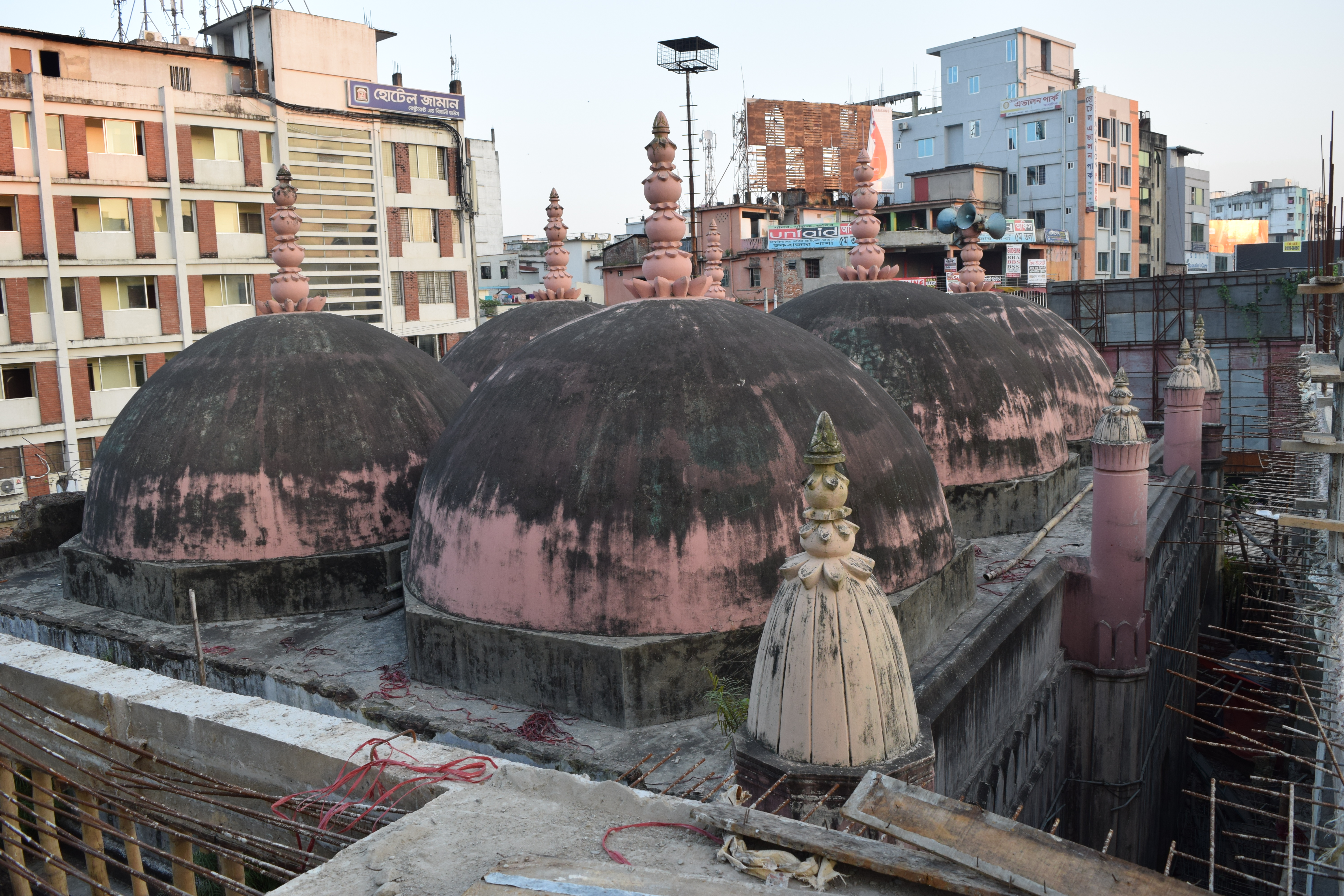 Domes of Wali Khan Mosque